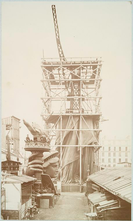 Digital ID: 1161037. [Assemblage of the Statue of Liberty in Paris, showing the bottom half of the statue erect under scaffolding, the head and torch at its feet.]. Fernique, Albert -- Photographer. 1883 Source: Album de la construction de la Statue de la Liberte. ( more info ) Repository: The New York Public Library. Photography Collection, Miriam and Ira D. Wallach Division of Art, Prints and Photographs. See more information about this image and others at NYPL Digital Gallery . Persistent URL: Rights Info: No known copyright restrictions; may be subject to third party rights (for more information, click here )